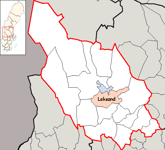 Leksand Municipality in Dalarna County Designd by me, based on Image:Dalarna County.png